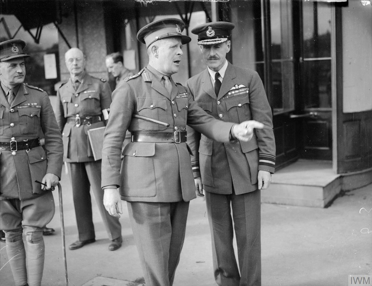 General Viscount Gort, Commander in Chief BEF with Air Vice Marshal C H B Blount, commanding the Air Component, outside the Hotel Moderne, Arras, France.